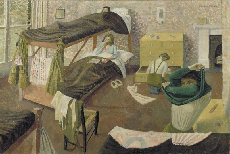 Interior of a billet with bunk beds and Women's Land Army girls preparing for bed.